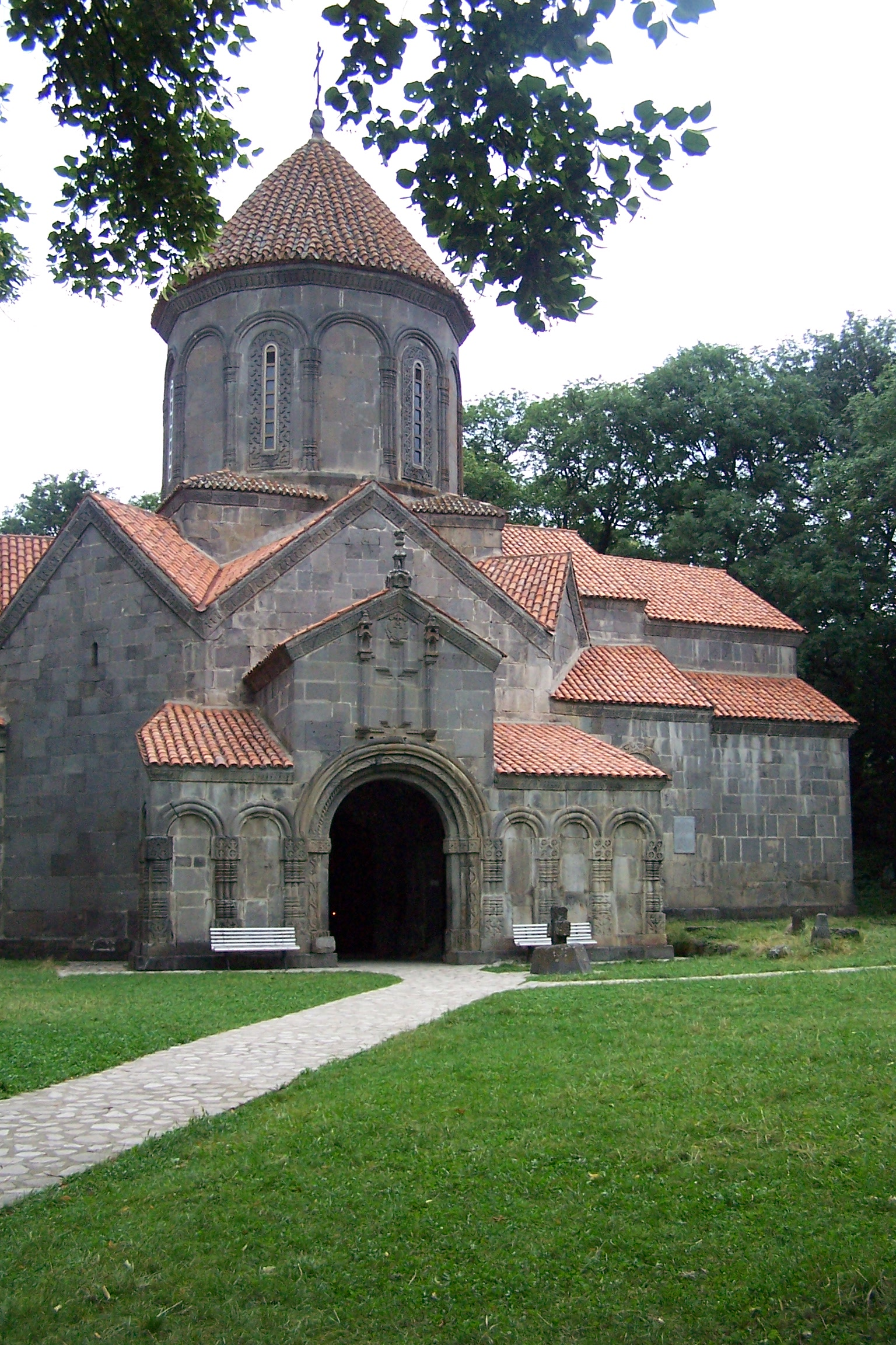 The Cathedral of Manglisi